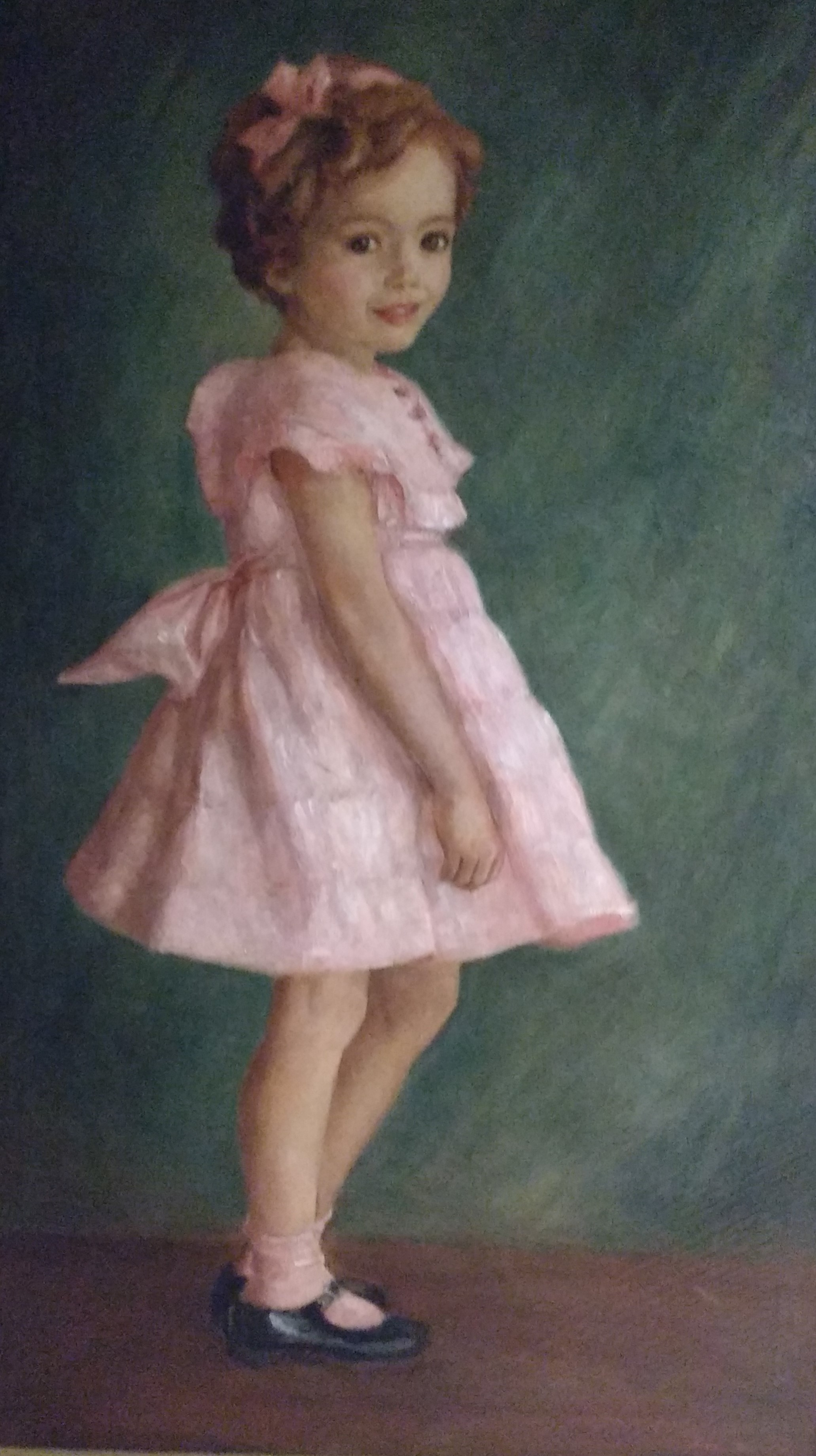 Oil Portrait of Claire, by Louise Brann Soverns, about 1960